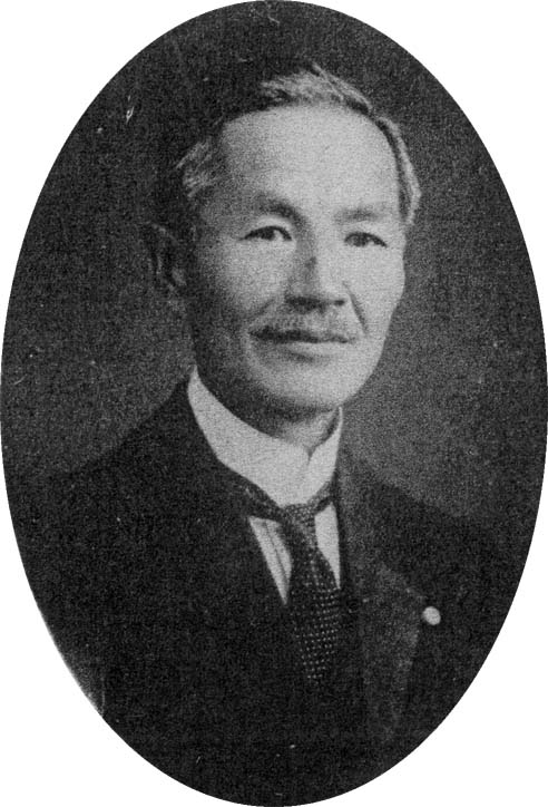 Mr. Kōnosuke Nakamura.